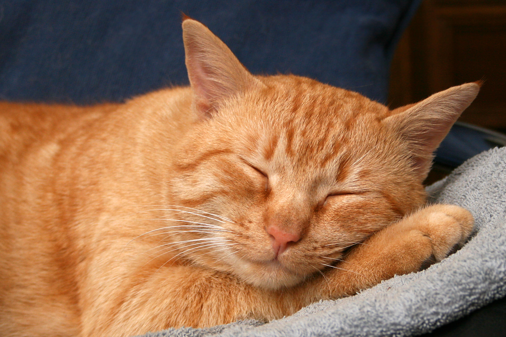 Sleeping cat